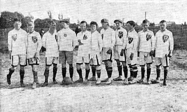 Football section of polish sports club Resovia (of Rzeszów) in 1913